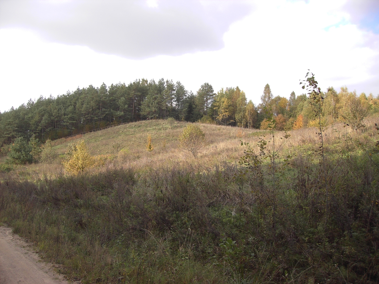 Hill of Gedanonys